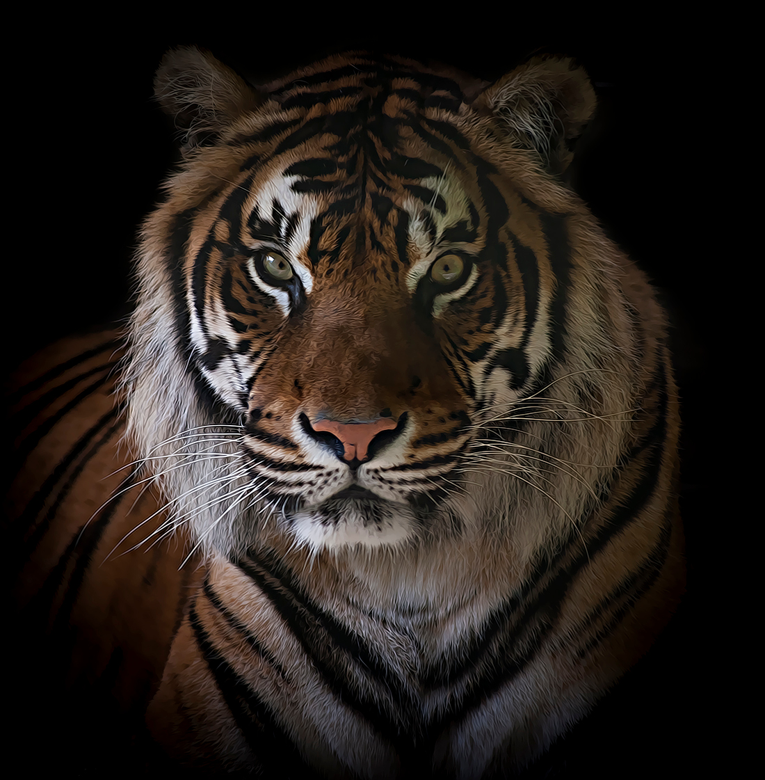 Do you even need a reason to save the Tiger?